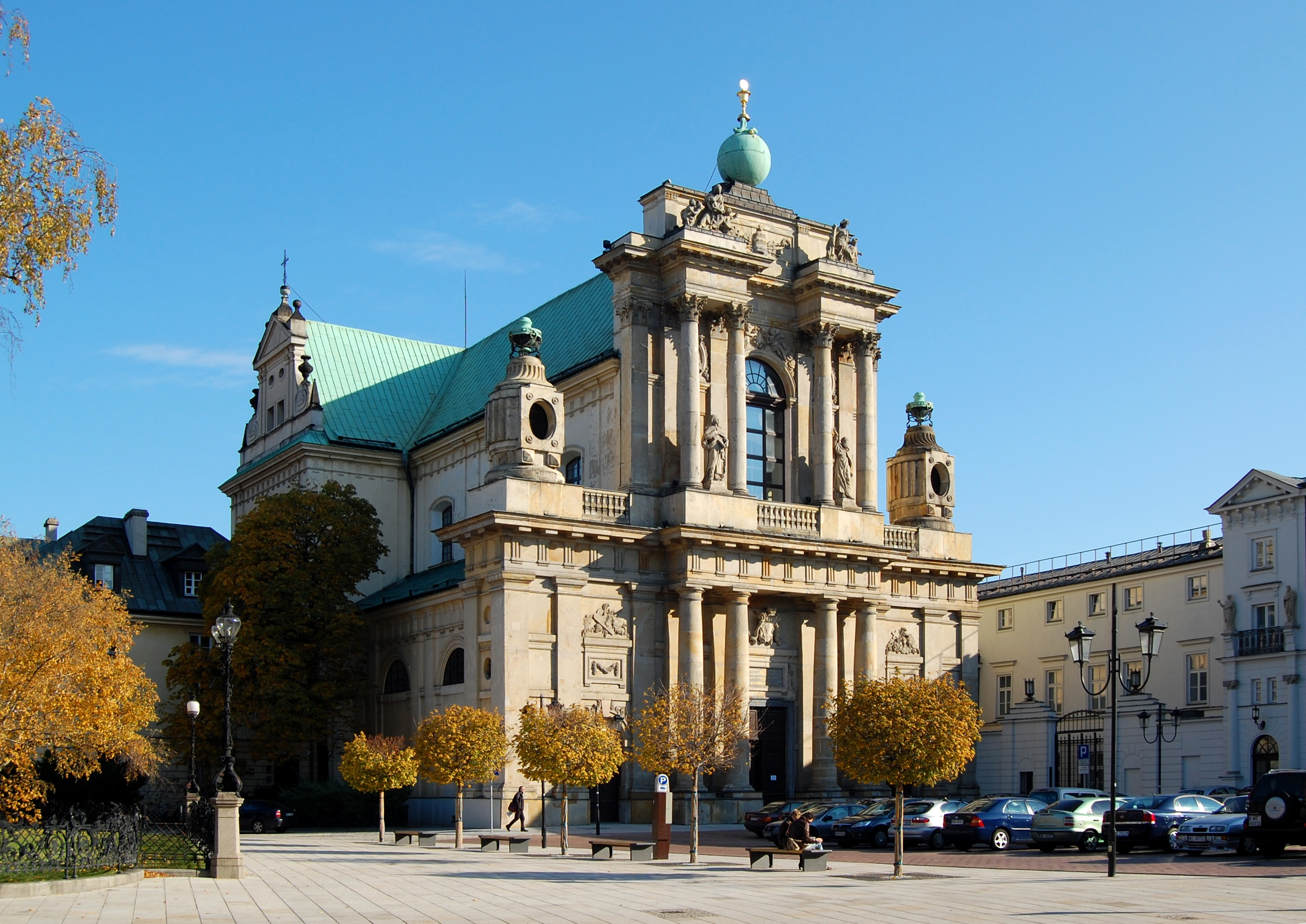 Carmelite Church, Warsaw.